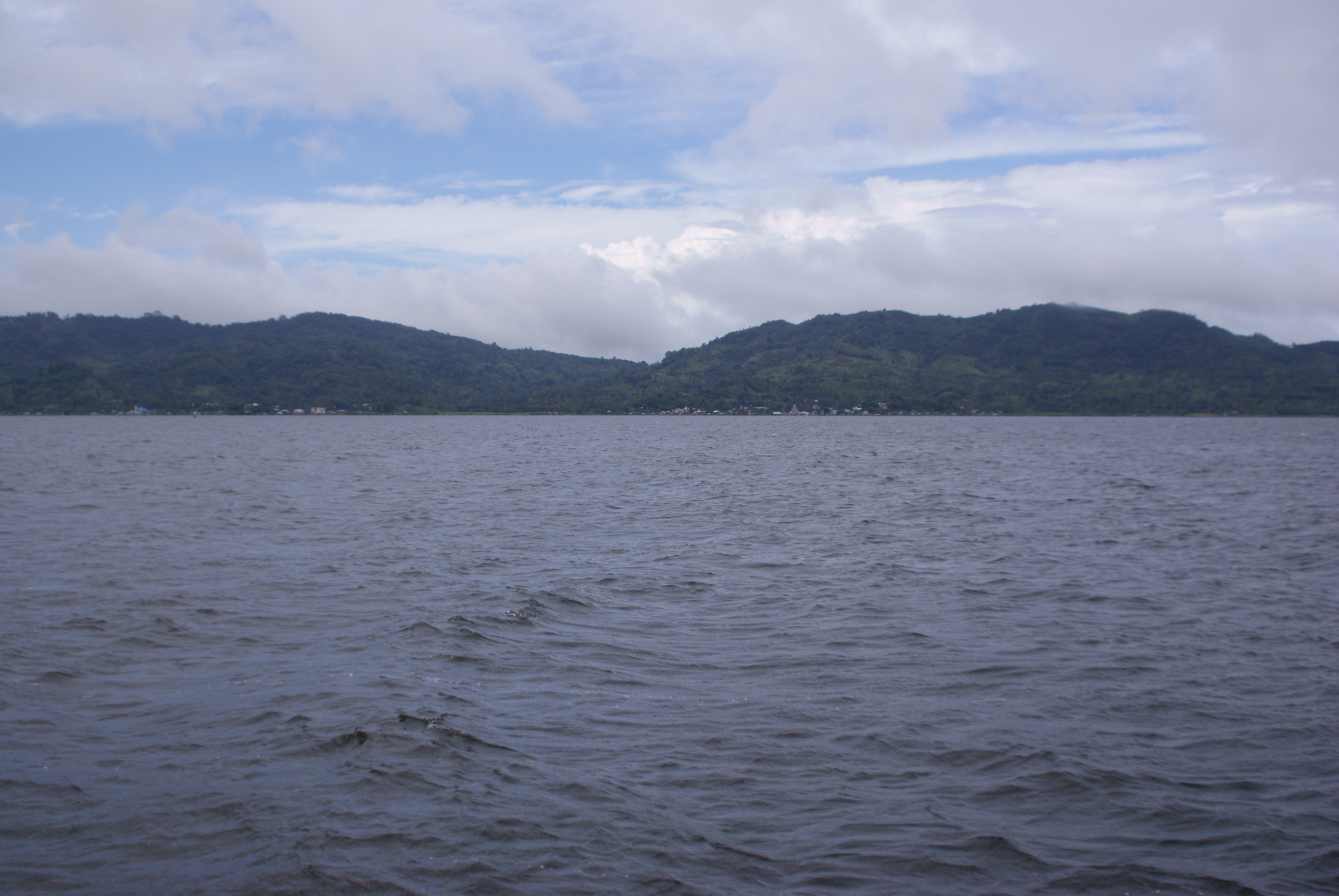 Lake Tondano, North Sulawesi, Indonesia